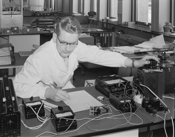 Engineer Magnussen at NEMKO (Norway electrical material control) tests electrical appliances. Norway, Oslo, Gaustad, Gaustadalleen 30C in 1963